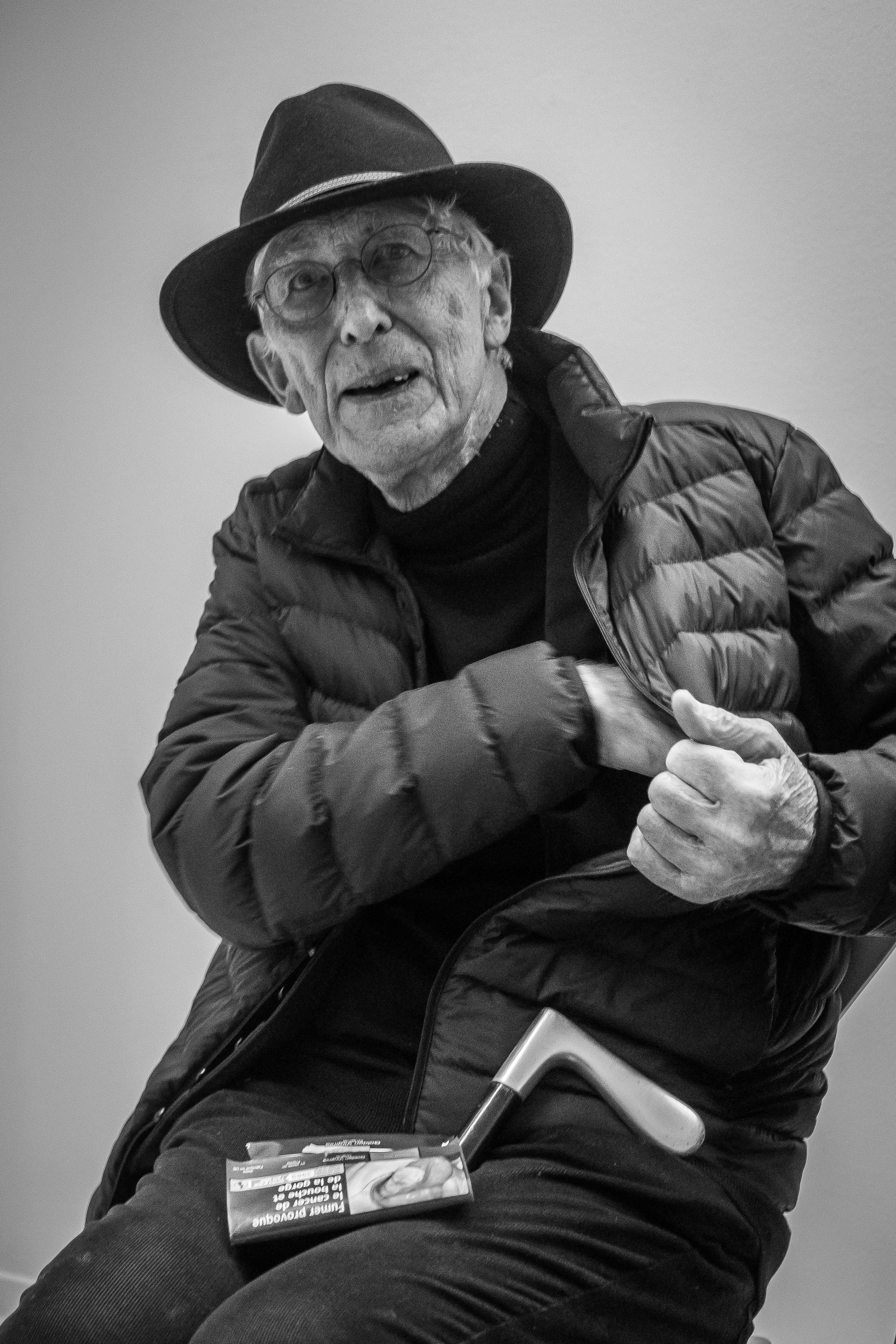 Jean-Thomas "Tomi" Ungerer (born 28 November 1931)[1] is a French illustrator and a writer in three languages. He has published over 140 books ranging from much loved children's books to controversial adult work and from the fantastic to the autobiographical.